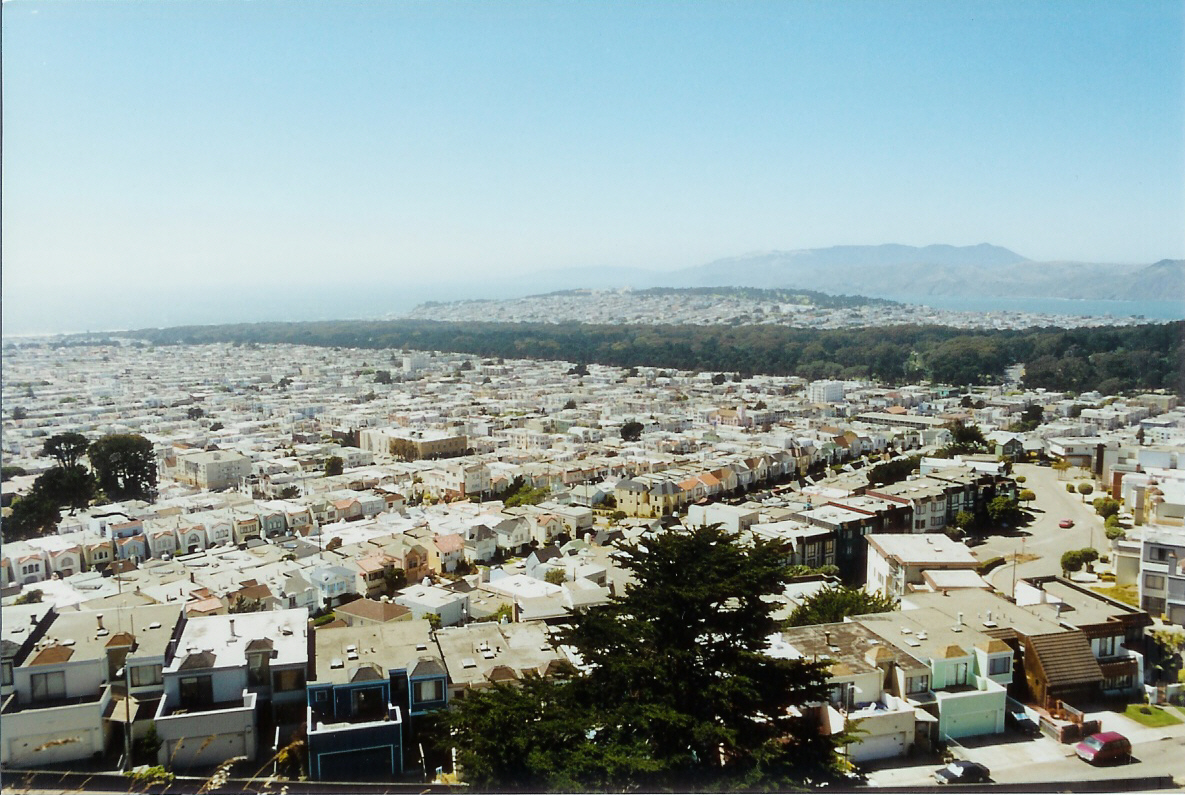 Sunset District (predominantly Chinese neighborhood in San Francisco). Background: Golden Gate Park, Richmond District.